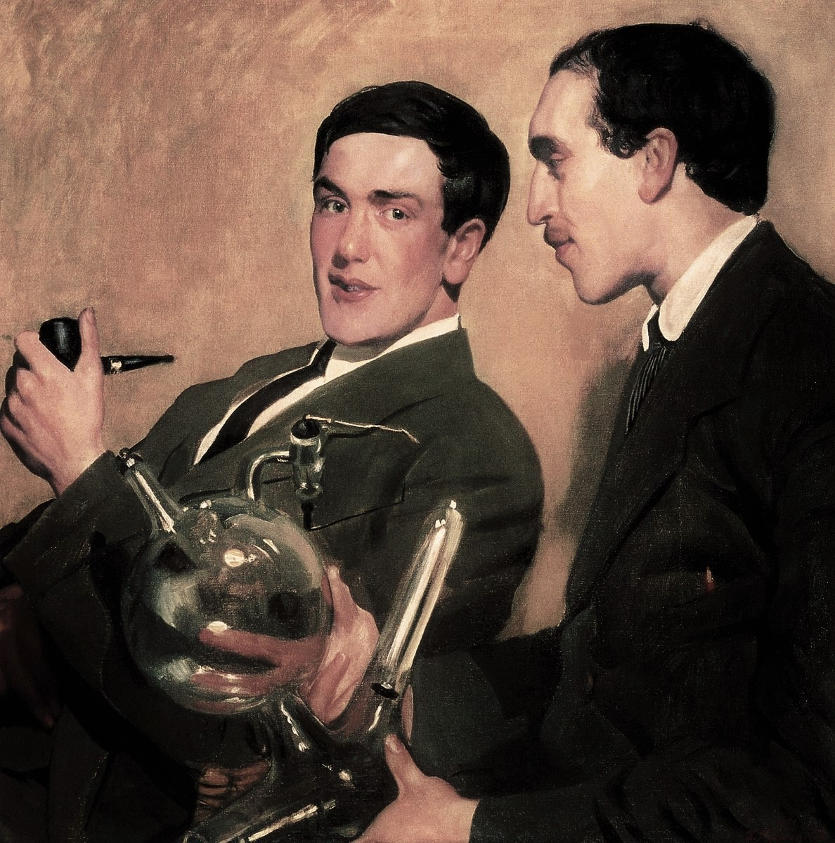 Portrait of Prof. Pyotr Kapitsa and Prof. Nikolai Semyonov